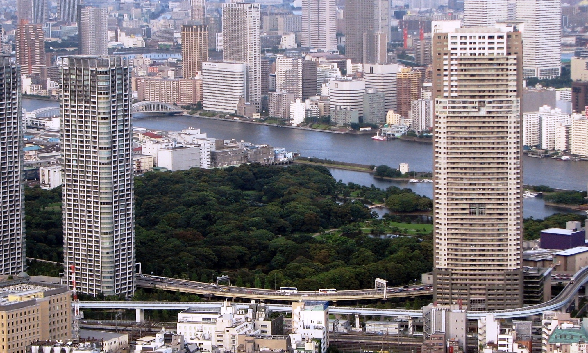 View of Hama Rikyu En Garden from Tokyo Tower